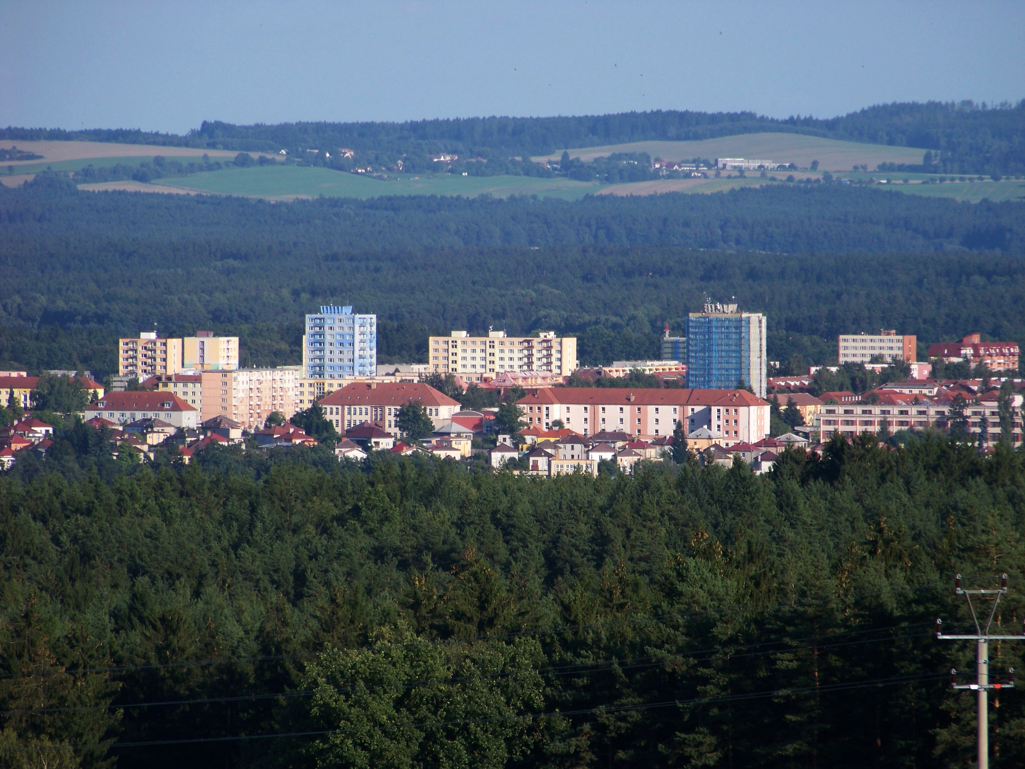 Sezimovo Ústí, Tábor District, South Bohemian Region, the Czech Republic. A view from Tábor-Dolní Větrovy. - OpenStreetMap(Info)